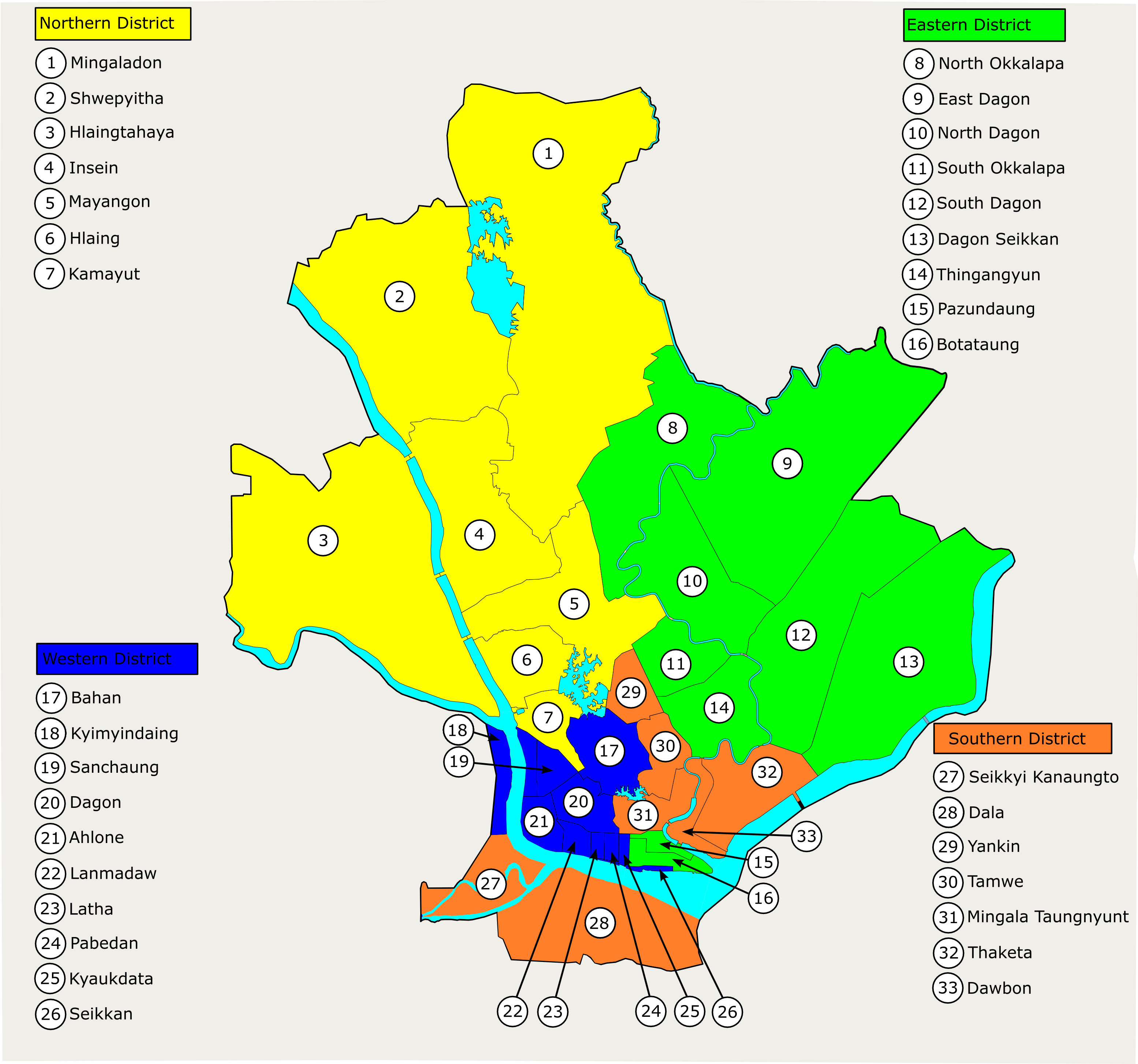 Map of districts and townships of Yangon ( contour taken from OpenStreetMaps)